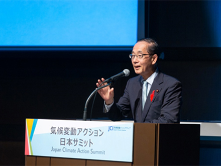 Yoshiaki Harada, Minister of the Environment, addressed Japan Climate Action Summit at Toranomon Hills in Minato Ward, Tōkyō Metropolis on October 12, 2018.